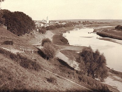 Zvenigorod. View of Nizhny Posad (the lower part of the town) to Gorodok (City, formerly the kremlin). 1896 Звенигород. Вид на Нижний Посад от Городка. 1896